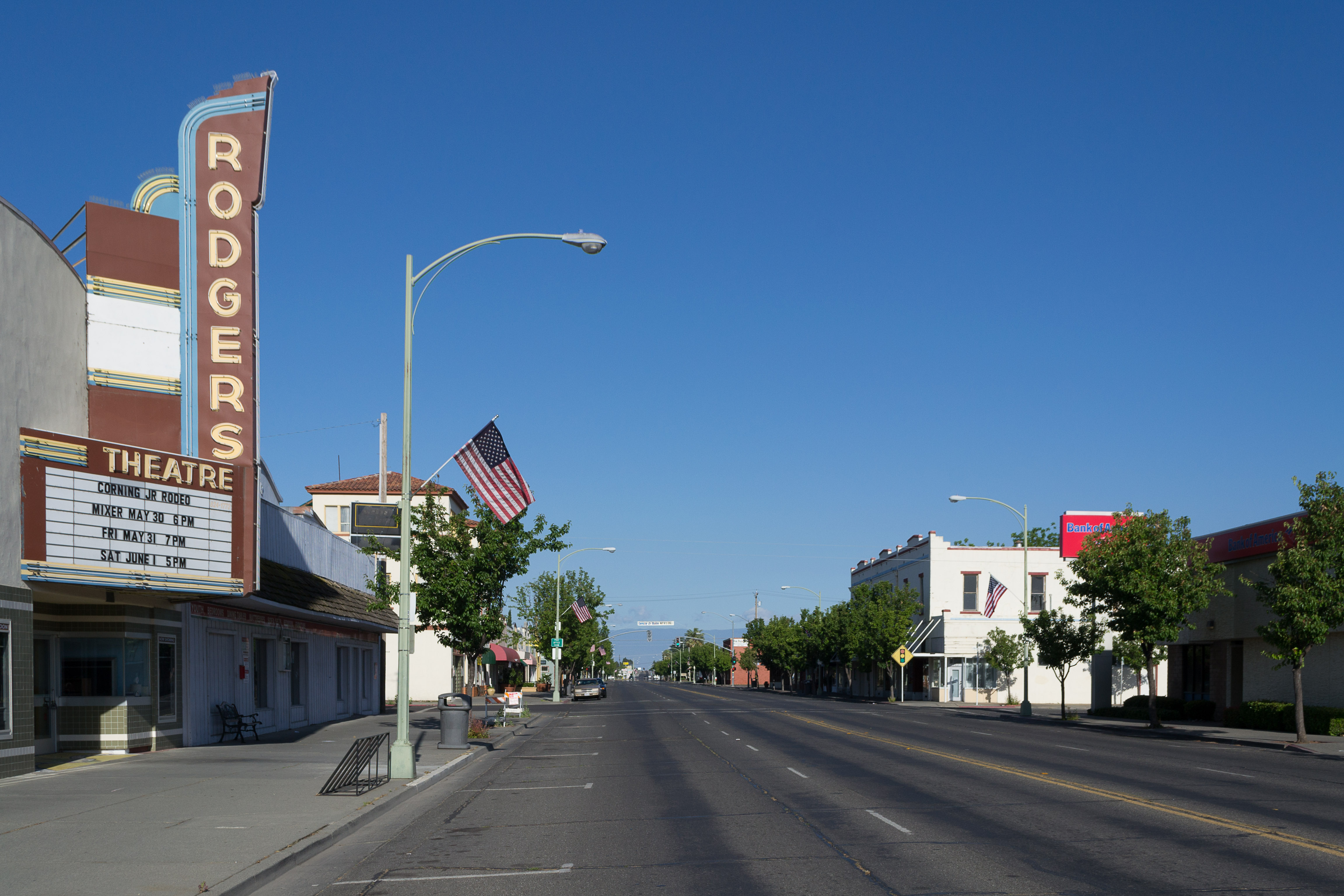 Solano Street in Corning, California